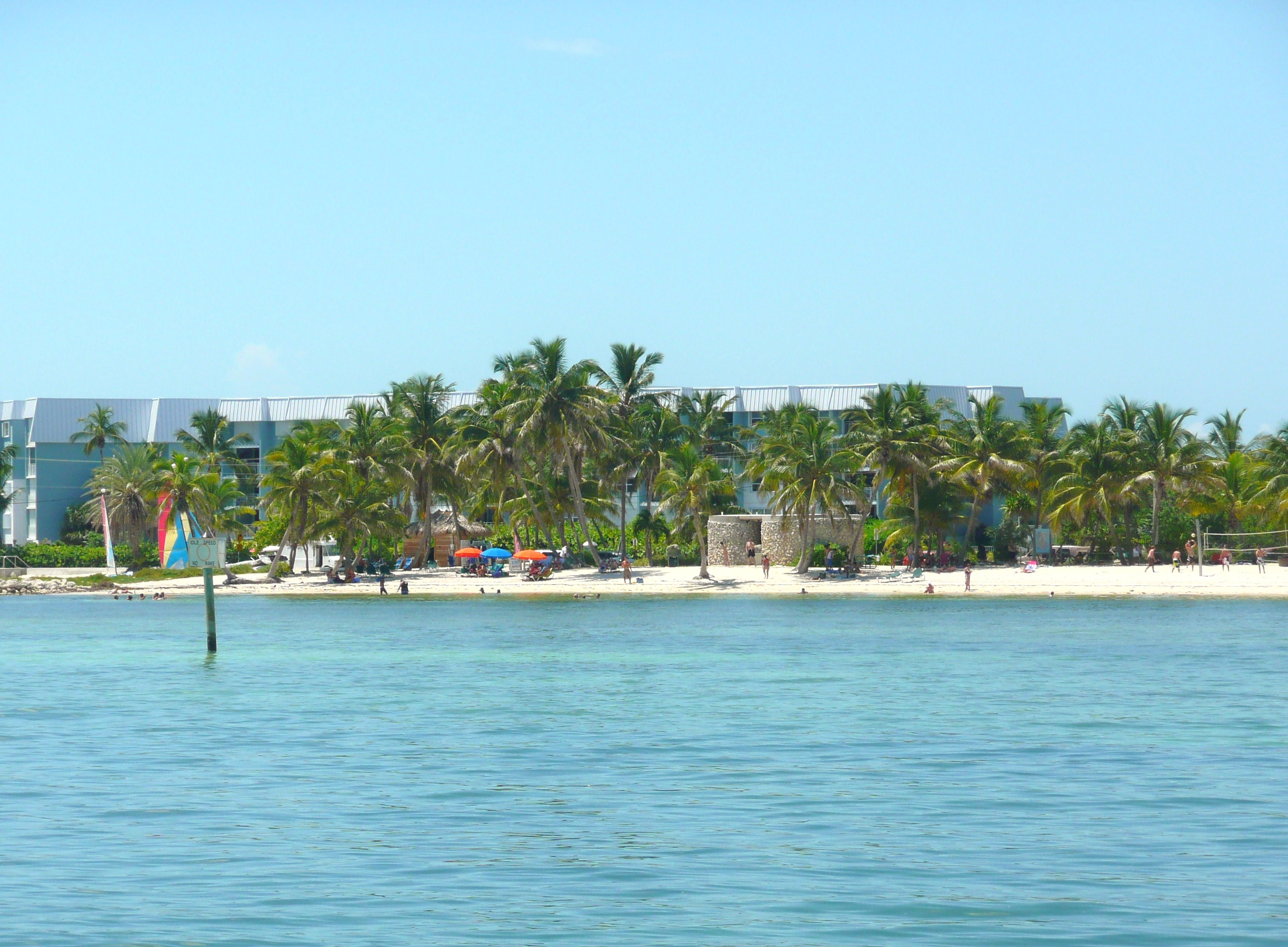 Digital photo taken by Marc Averette. Smathers Beach in Key West, Florida.